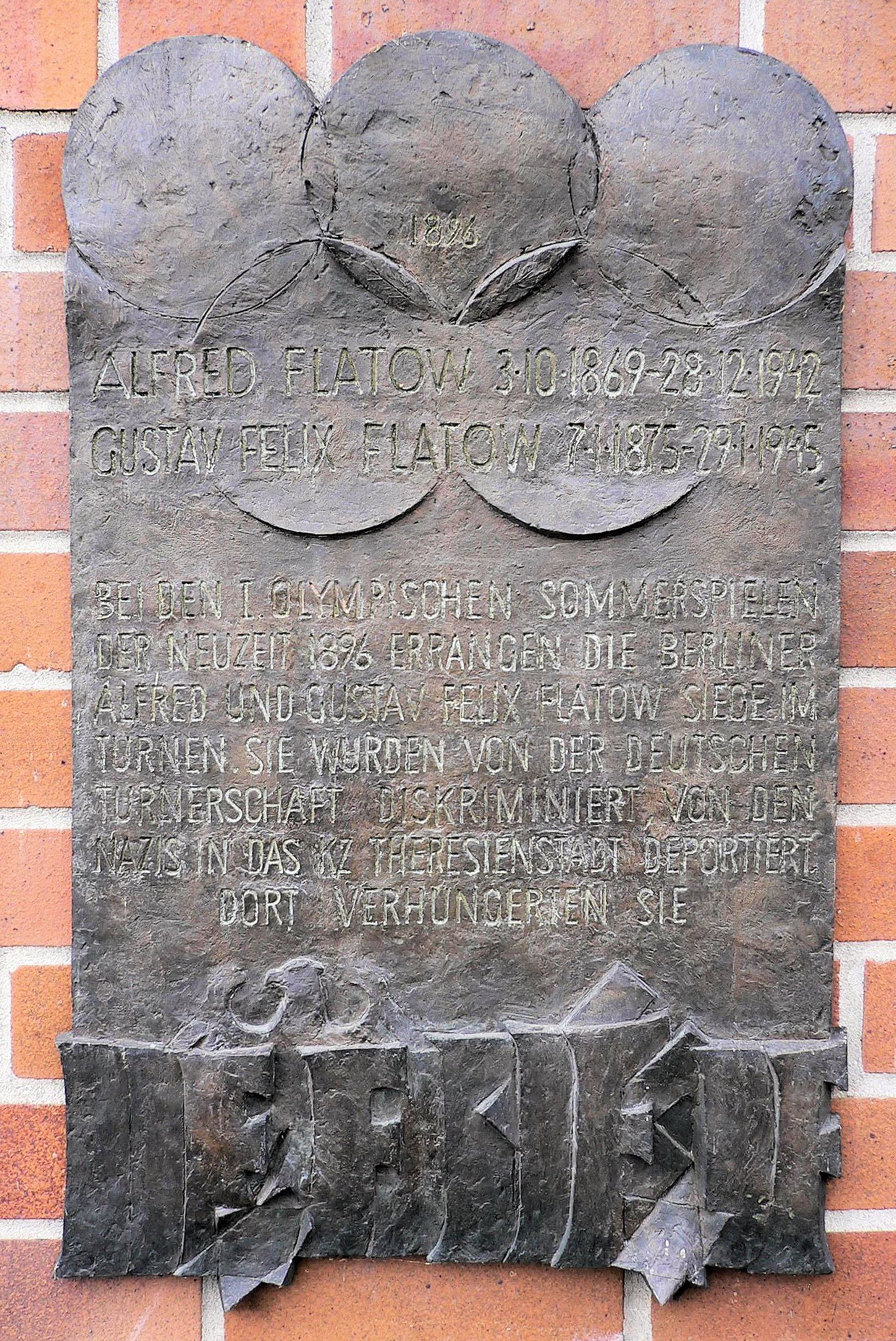 Memorial plaque, Gustav Felix Flatow, Vor dem Schlesischen Tor 1, Berlin-Kreuzberg, Germany